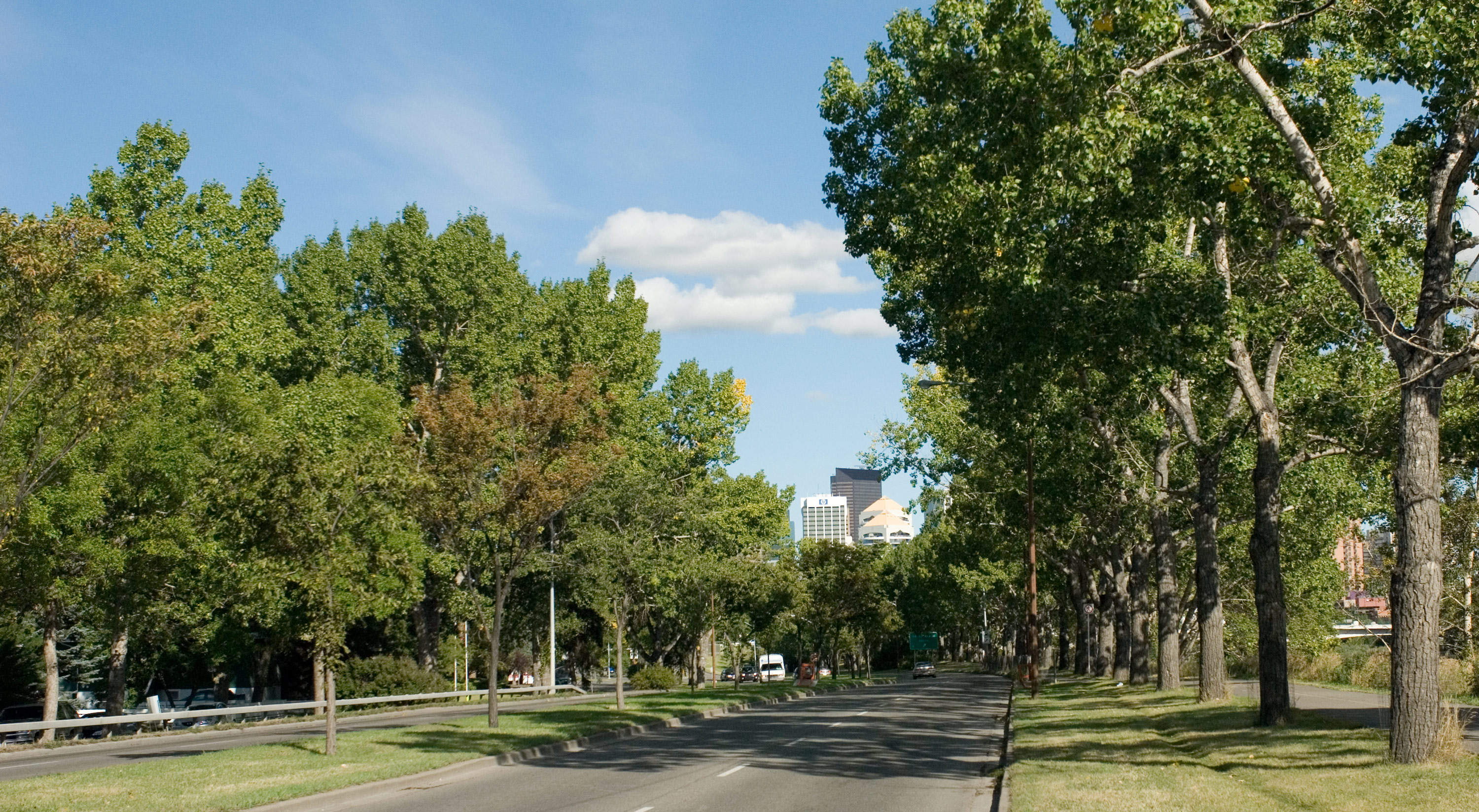 Memorial Drive, Calgary Alberta, looking east from about 17th St NW. Photo by Chuck Szmurlo taken September 1, 2007 with a Nikon D200 and a Nikon f2.8 lens.